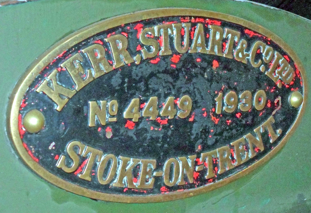 Kerr Stuart works plate from GWR 57XX class 0-6-0PT 7714 at the Severn Valley Railway in 2012